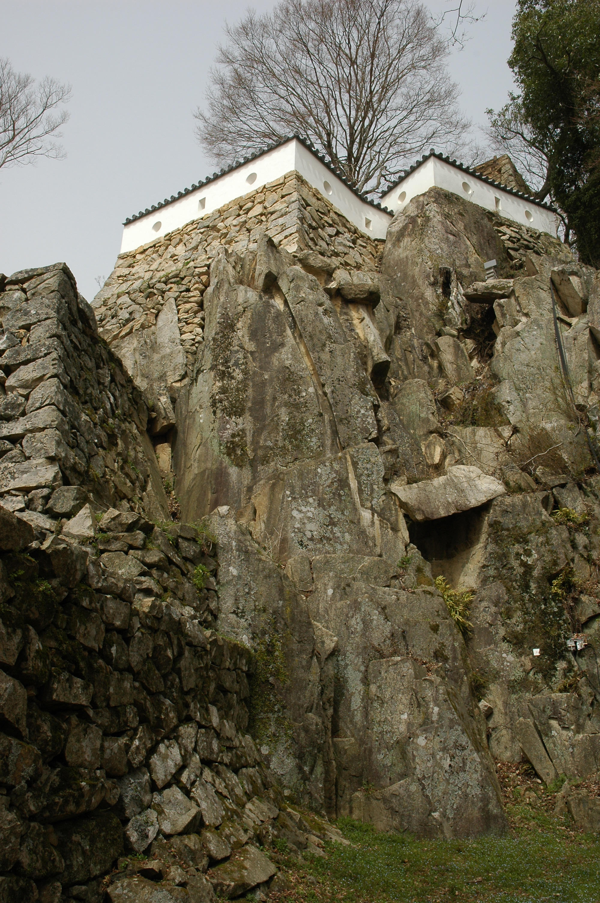 Stone wall and earthen wall(Japan's national important cultural property) built on the rocks, Bitchū Matsuyama Castle, Okayama pref., Japan